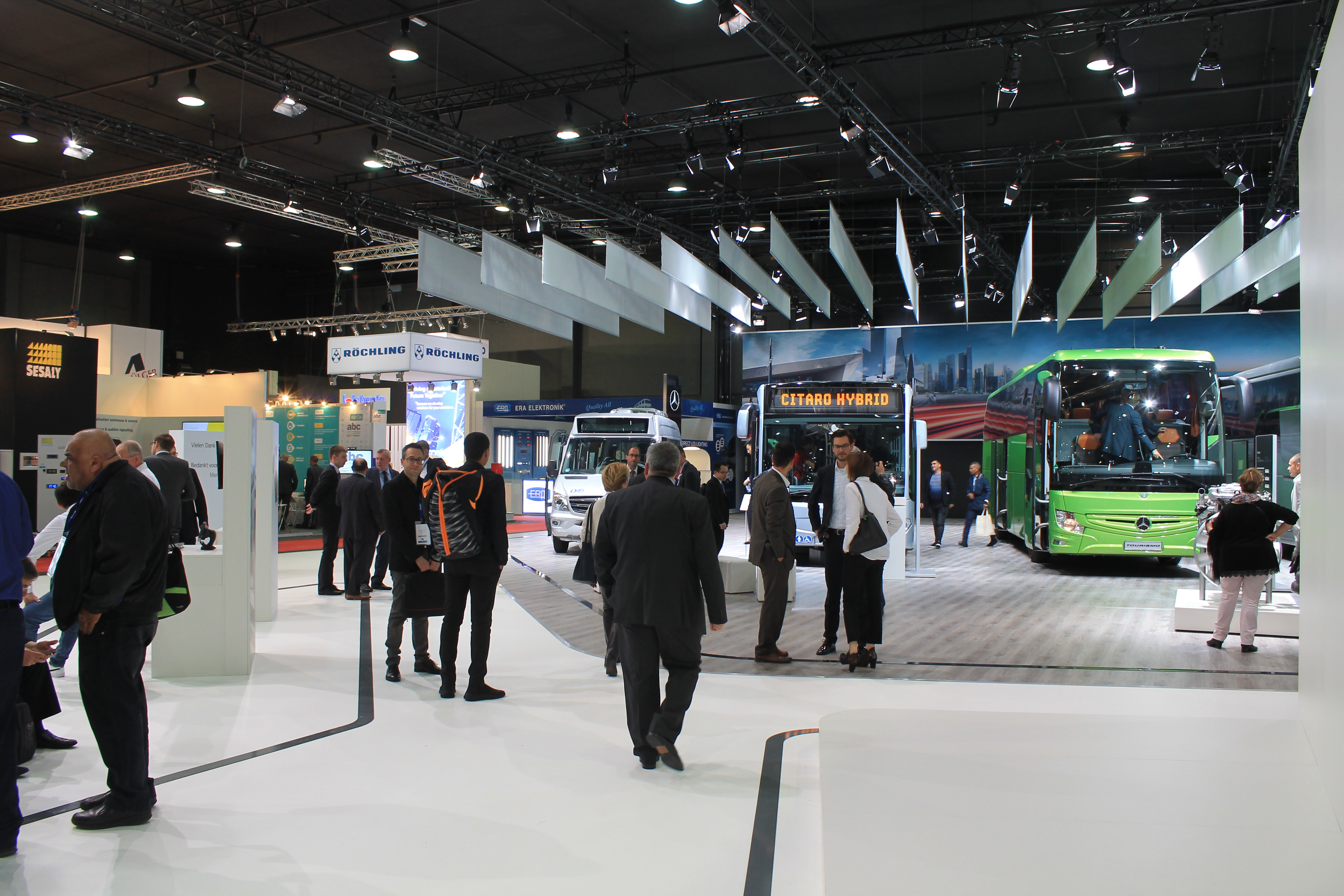 Busworld 2017 in Kortrijk Xpo